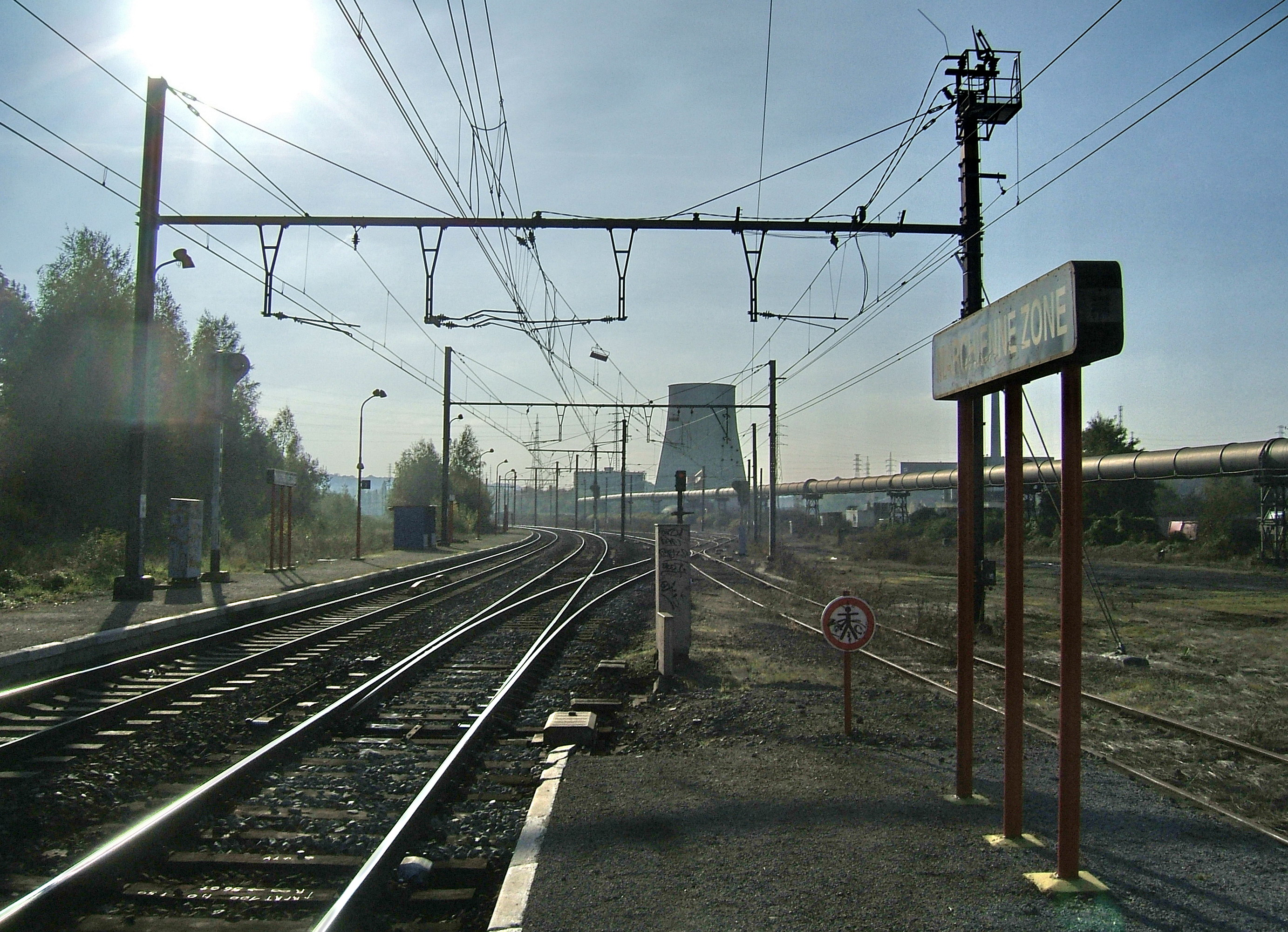 Marchienne-Zône railway station, Belgium